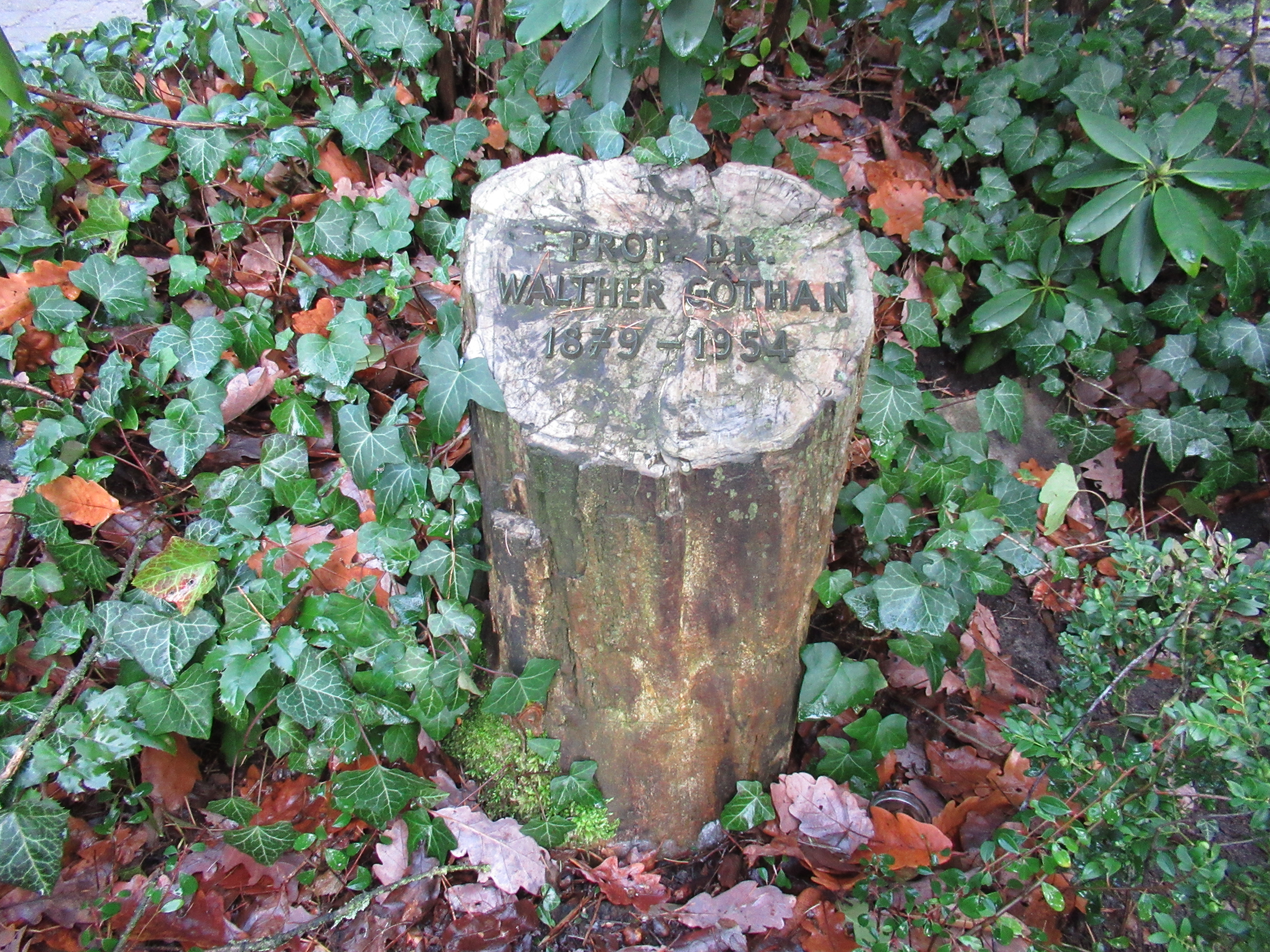 Grave of German paleobotanist Walther Gothan at Friedhof Heerstraße in Berlin-Westend